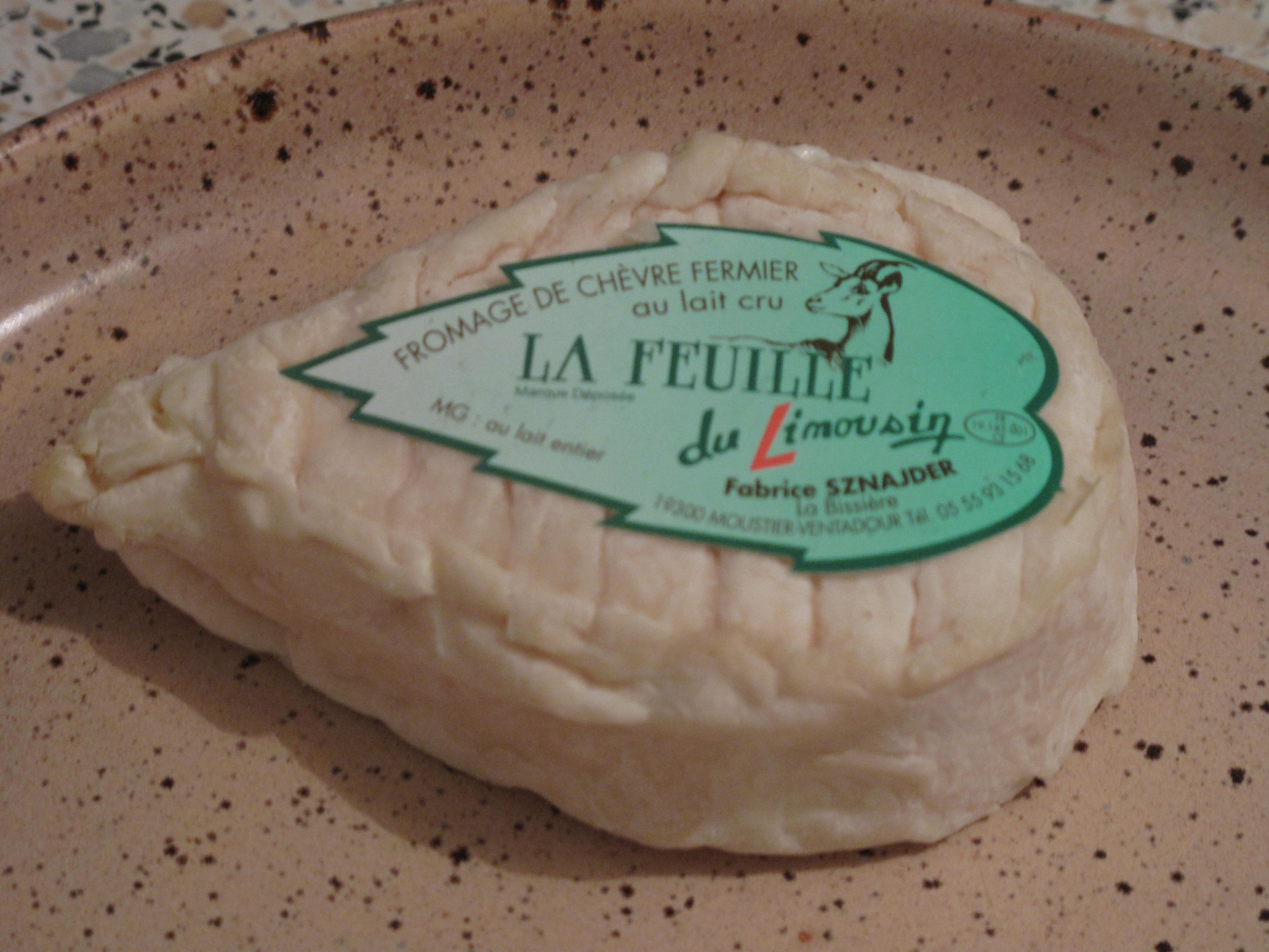 Goat's cheese "la feuille du Limousin" (=leaf of the Limousin, the Limousin is the region around the town of Limoges) made in Corrèze, France.